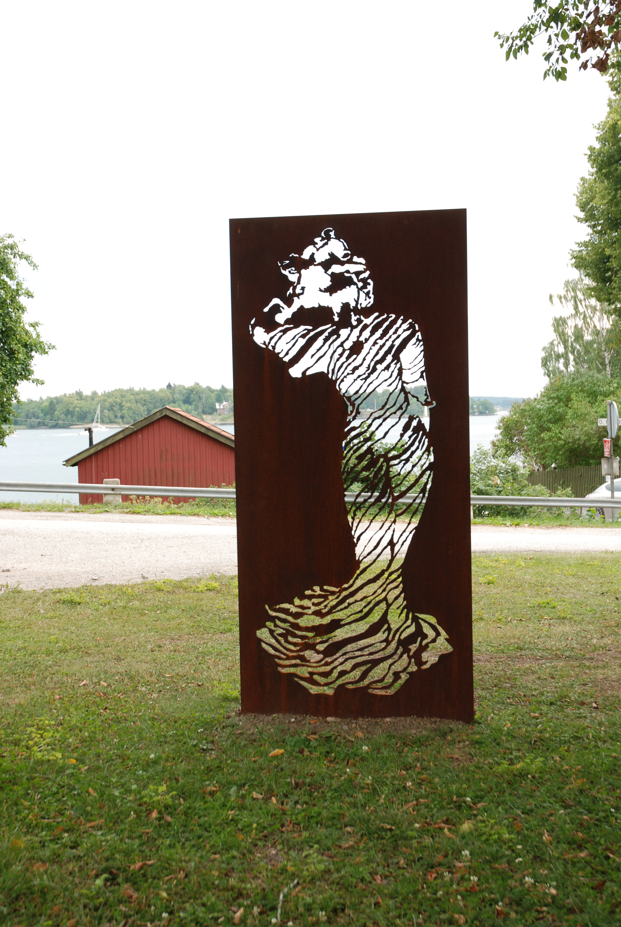 Frank Olsson's Diva. Ekuddsparken i Vaxholm 2011